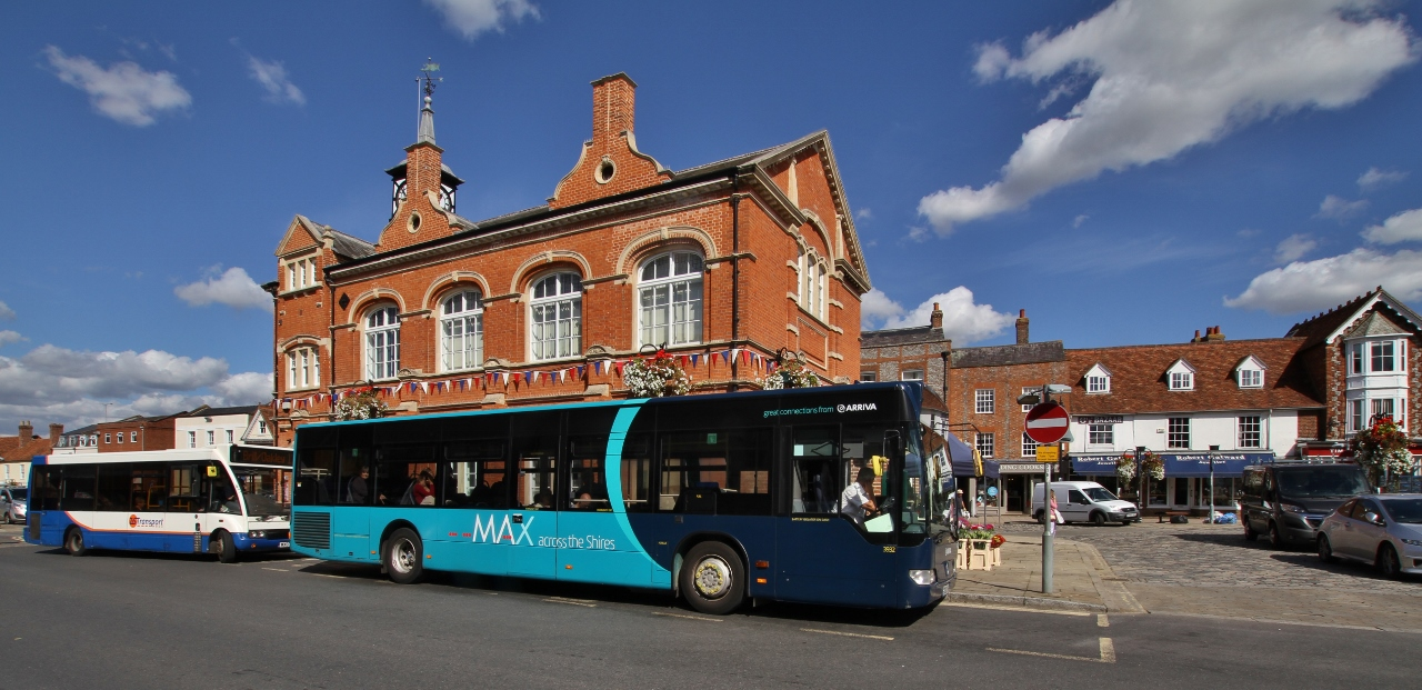 An Arriva the Shires bus on route 280 outside the Town Hall in High Street, Thame, Oxfordshire. The bus is a Mercedes-Benz Citaro, registration mark BD12 DHK, fleet number 3932. Behind it is a Z&S Transport bus on route 113. It is an Optare Solo, registration mark MX03 YDE.